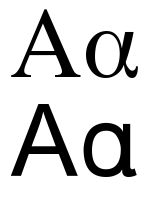 The greek letter 'Alpha' in its upper and lower cases